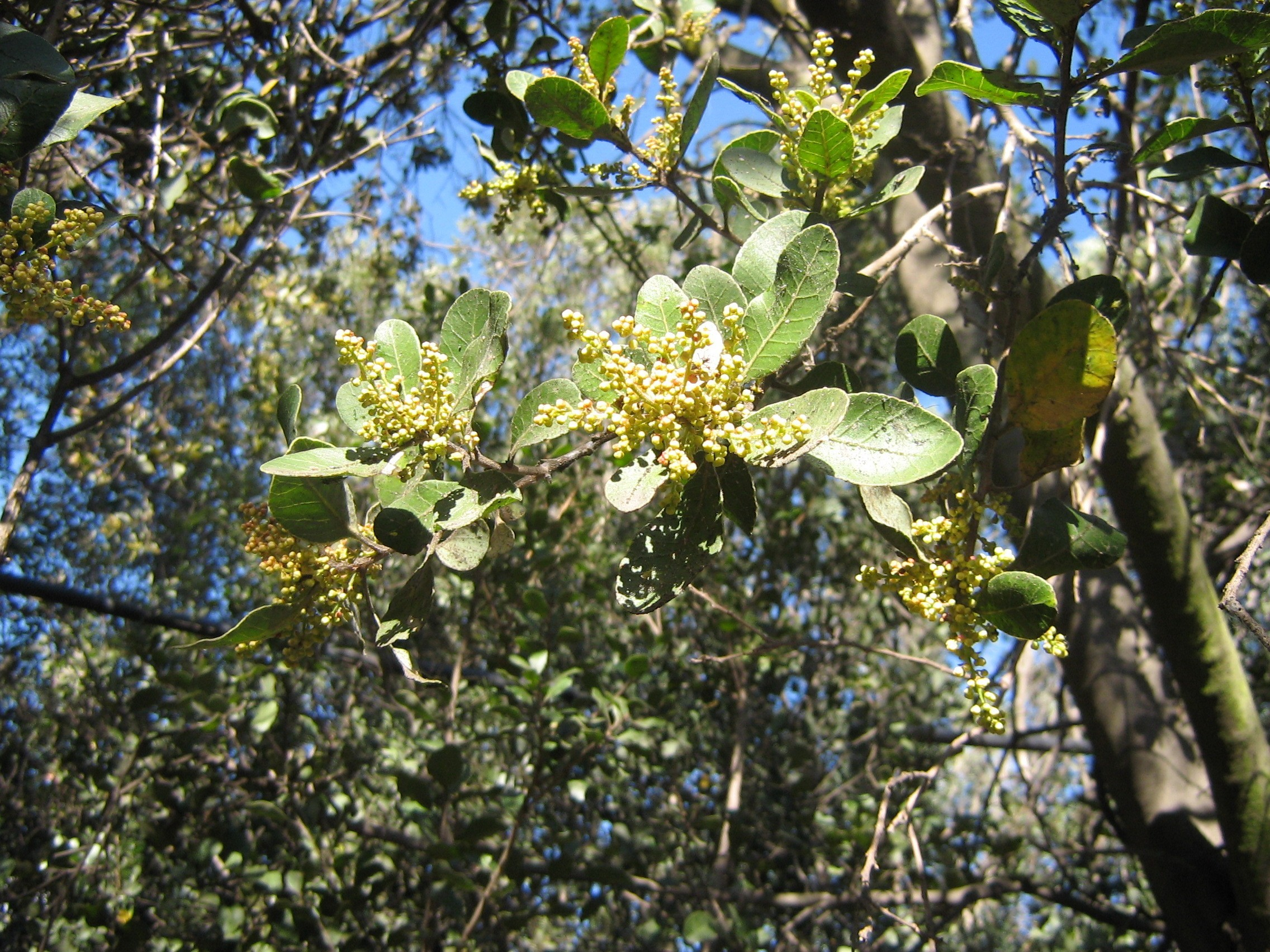 Lithrea caustica (Molina)Hook.et Arn., Matorral Central Chile